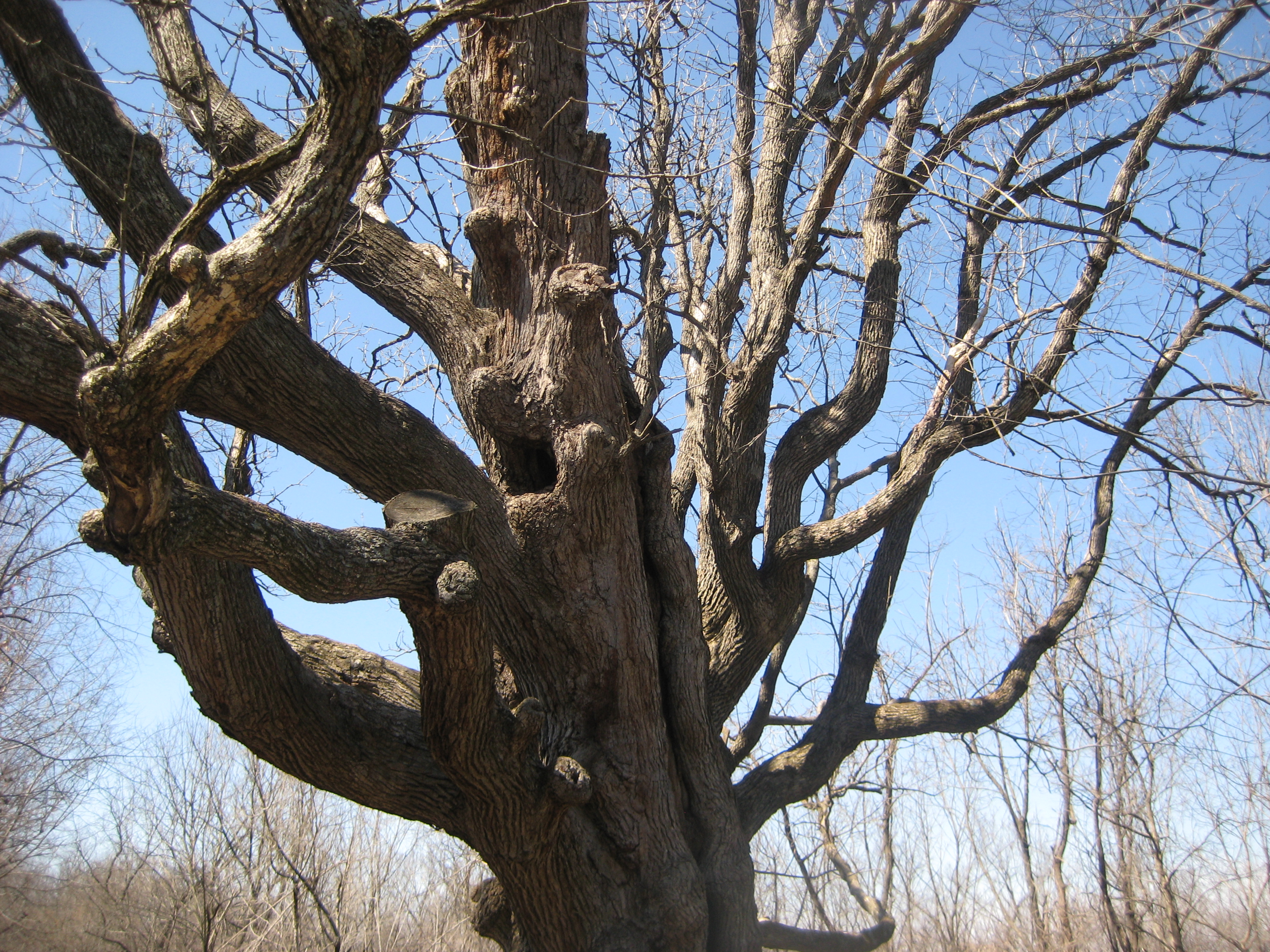 A closeup of a 250-year-old bur oak tree in McConnell Springs Park in Lexington, Kentucky, USA, in early spring, before shoots sprouted.